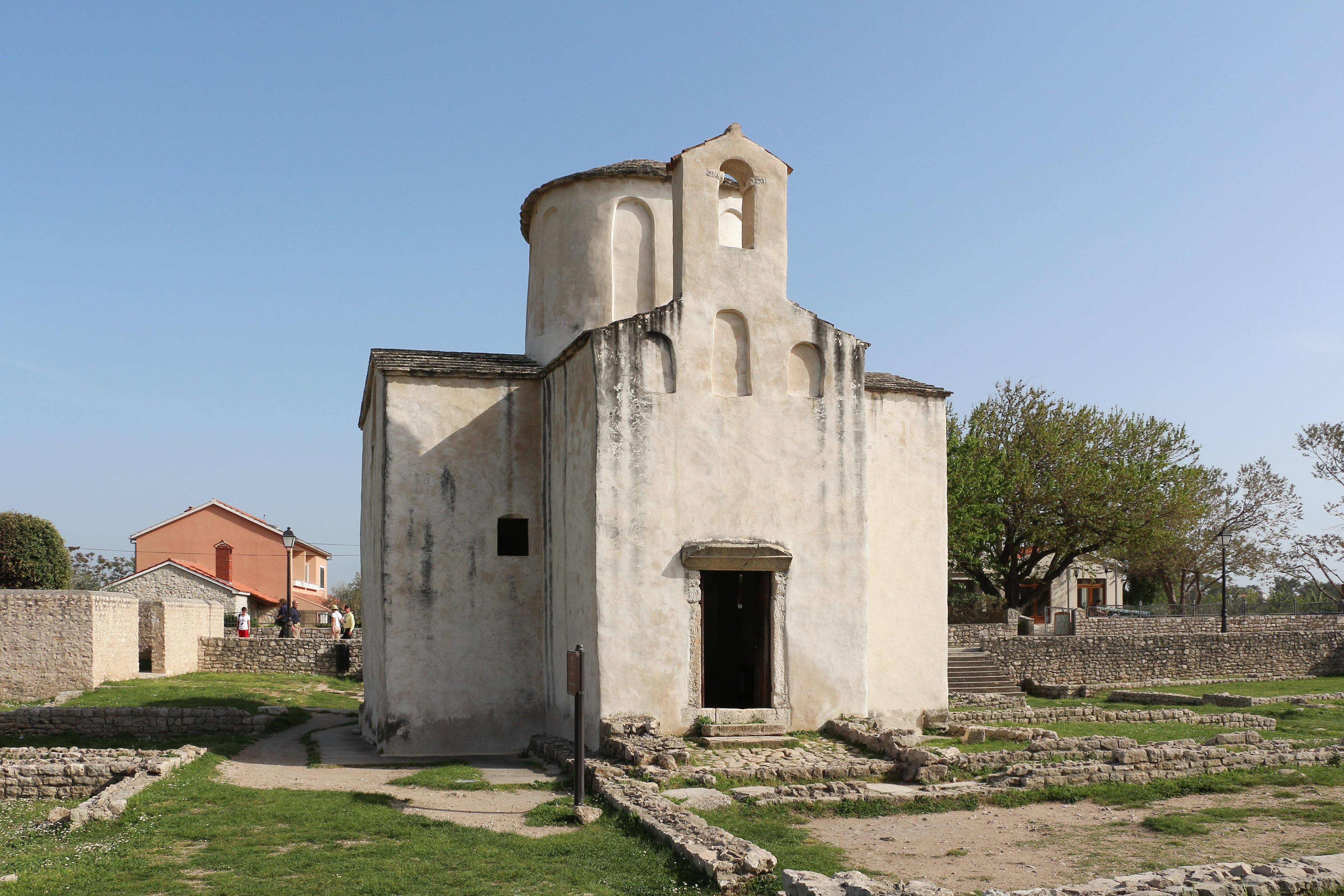 Church of St. Cross in Nin, Croatia